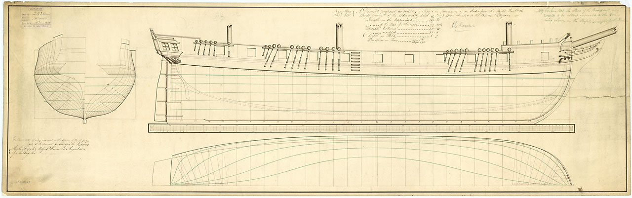 HERMES 1811 lines 6th Rate. NMM, Progress Book, volume 7, folio 65, states that the 'Hermes' was built at Portsmouth Dockyard between May 1810 and 22 July 1811 when she was launched. She was docked on 23 July to be coppered, and sailed on 7 September 1811 having been fitted.